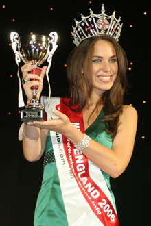 Miss England 2006 Eleanor Glynn. July 2006.